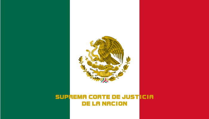 Standard of the Supreme Court of Justice of the Nation (Mexico)